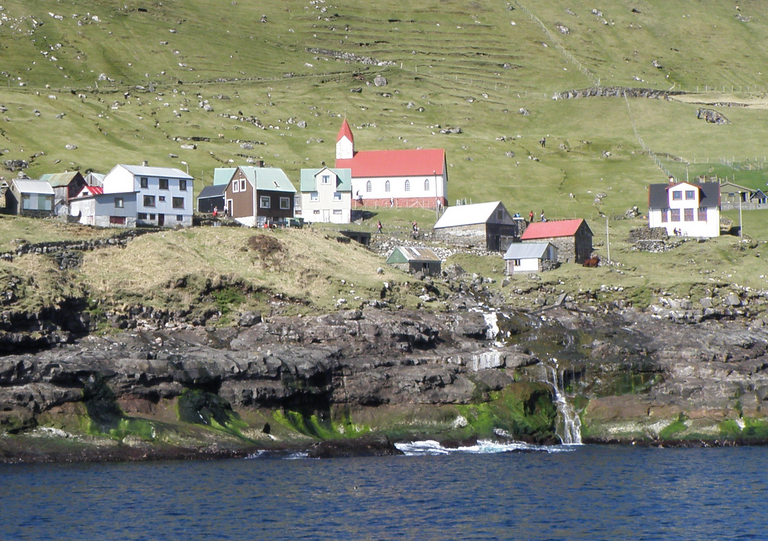 Hattarvík - church and houses in the center of the village